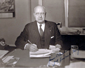 James C. Auchincloss, US Representative from New Jersey